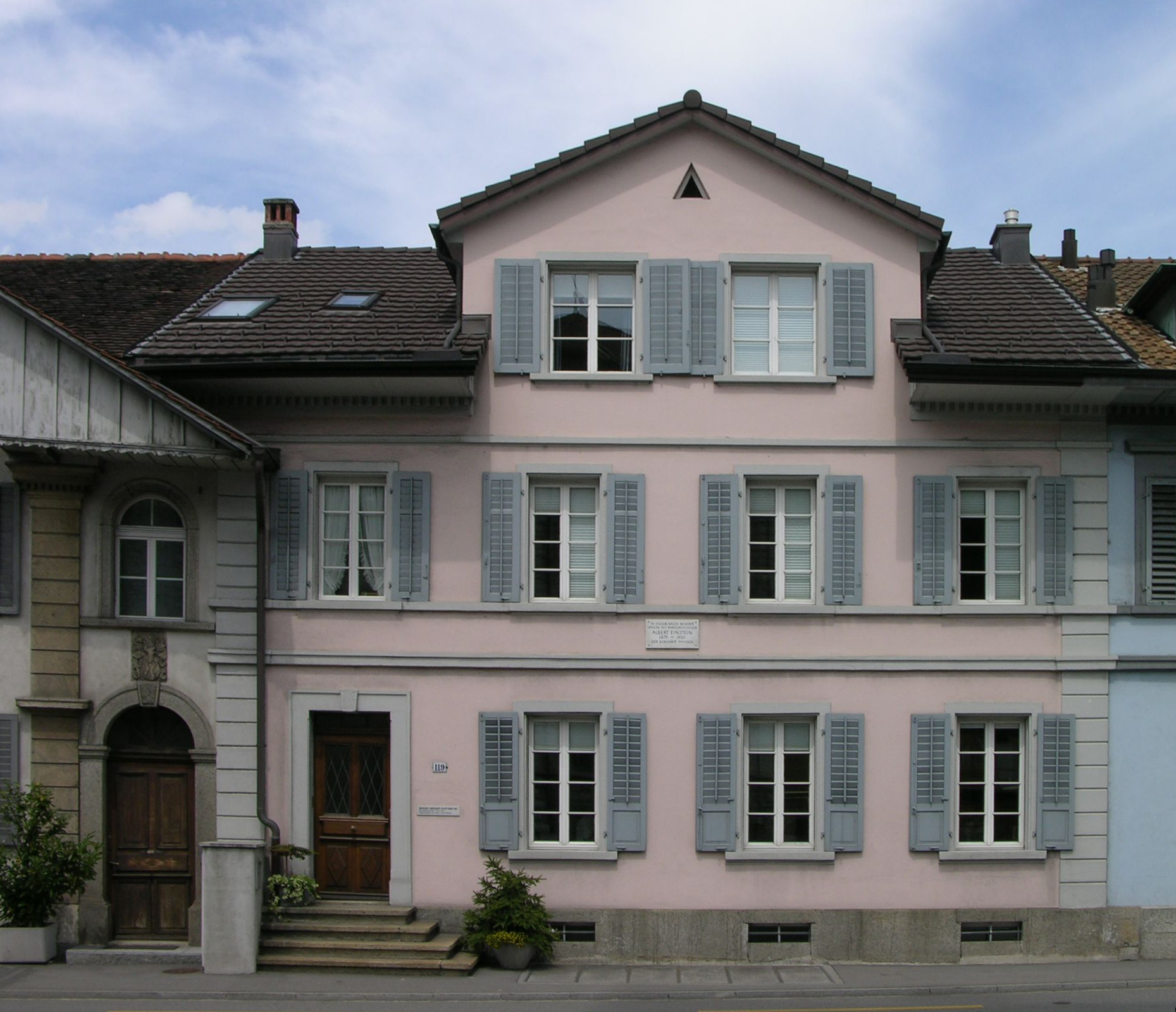 house, where Einstein lived 1895/1896 in Aarau, while attending the Alte Kantonsschule